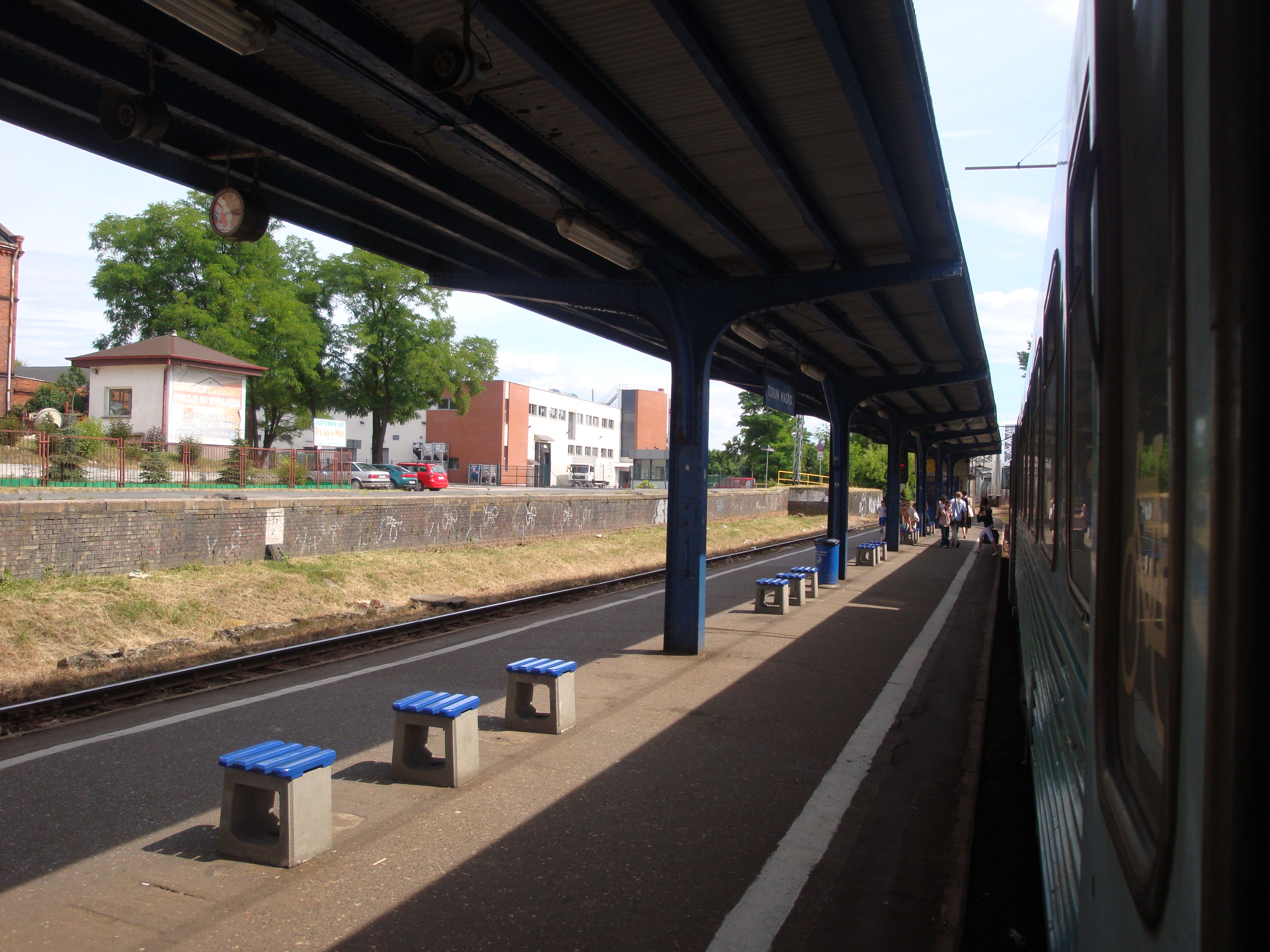 Platform of Toruń Miasto railway station